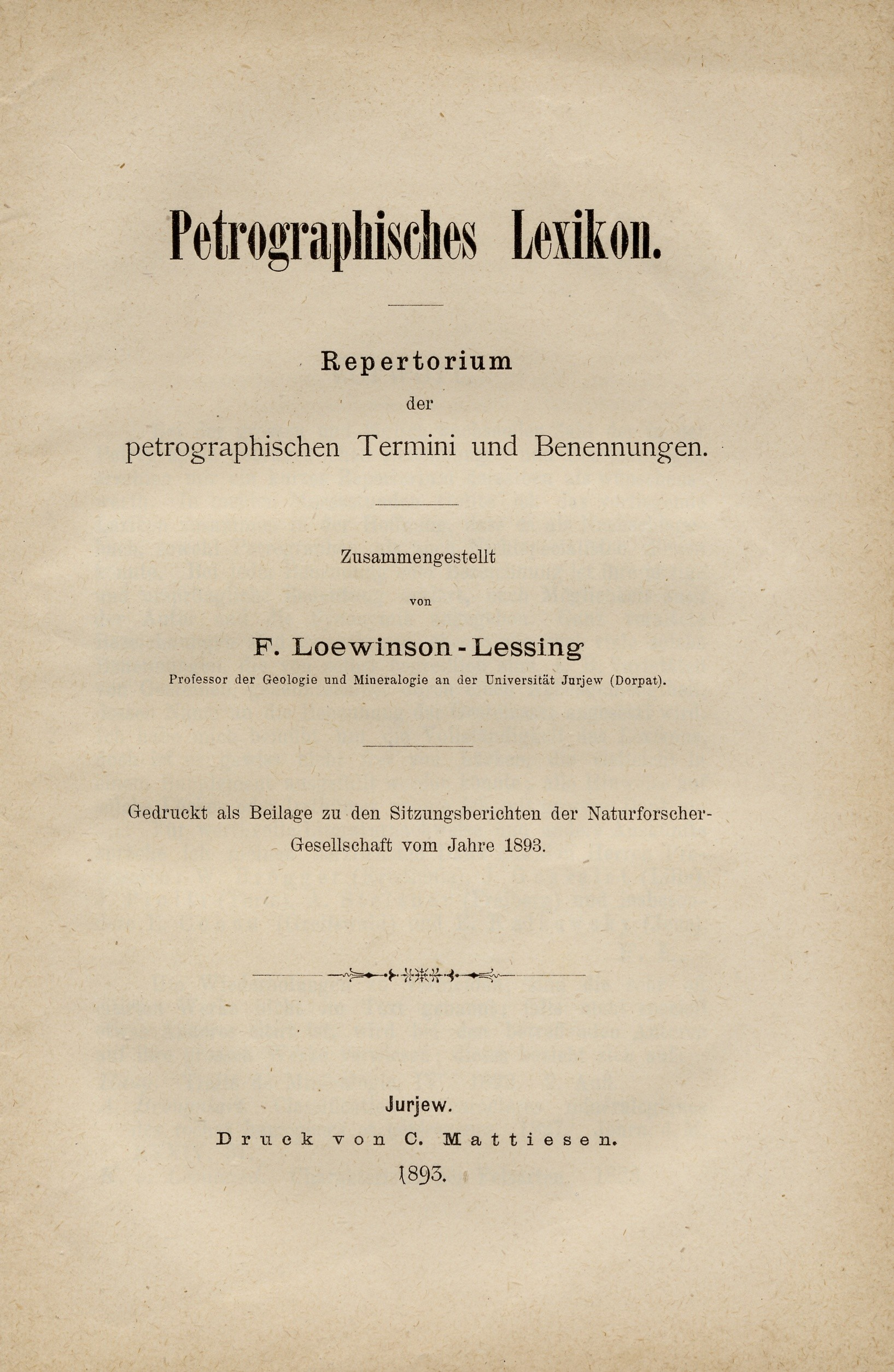 titel page of Petrographisches Lexikon by Franz Loewinson-Lessing, 1893 (died 1939)